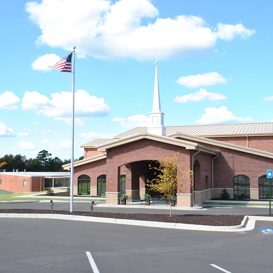 Photo of the new sanctuary of Sweetwater Baptist Church